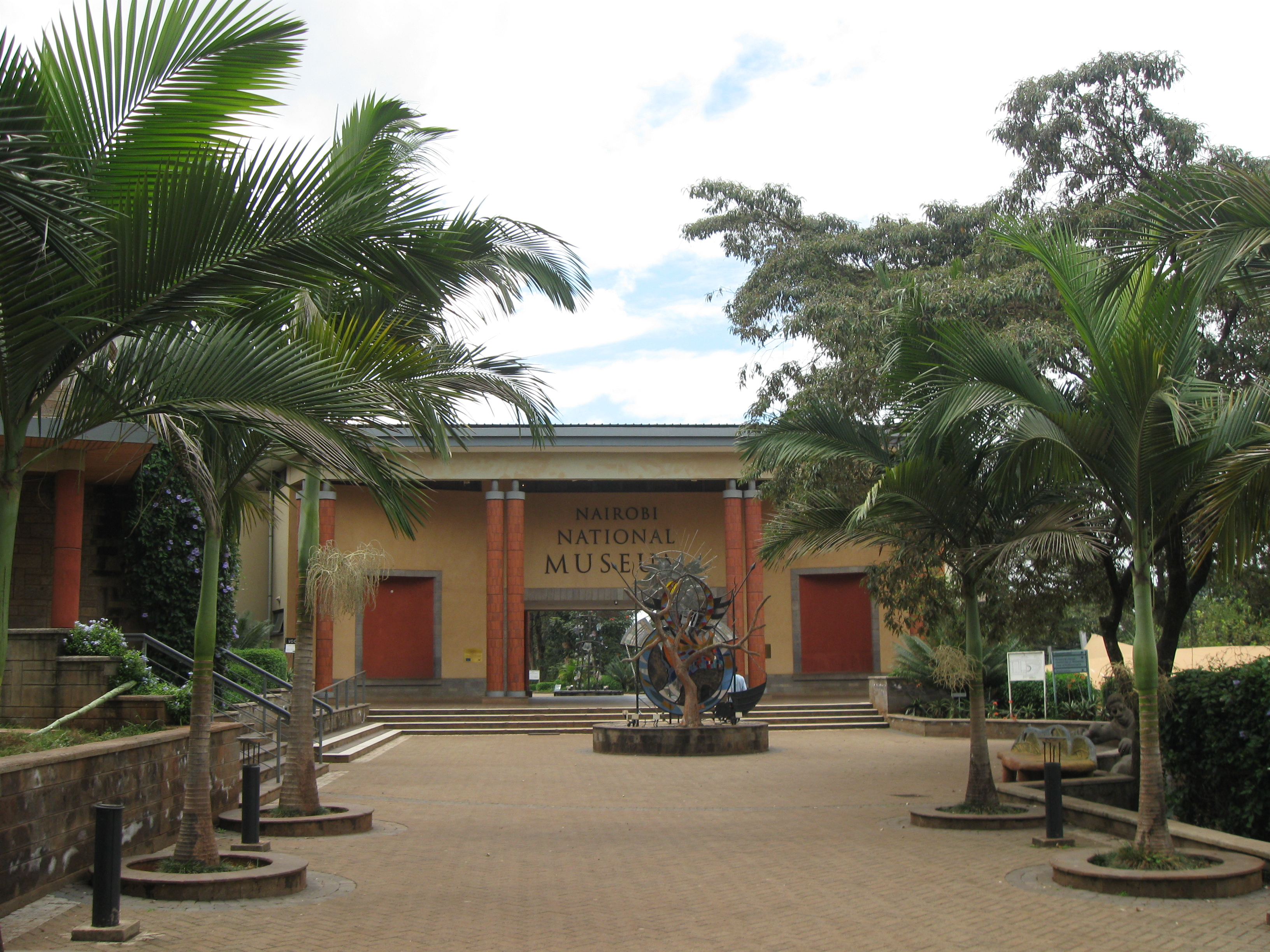 Nairobi National Museum, Nairobi, Kenya – entrance